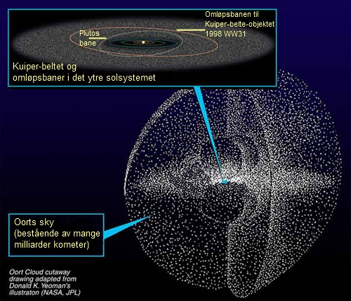 Note: See the version numbered to create or enhance one translation. If you can, help make this description accessible to all by translating it into other languages – thanks!